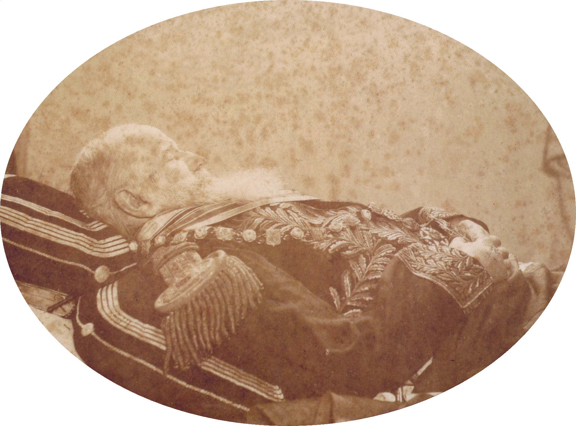 Pedro II of Brazil dead, 1891.